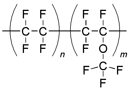 Chemical structure of perfluoroalkoxy polymer.